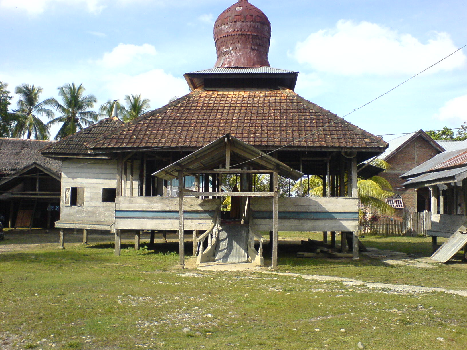 Dayah Umi Rawiyah in Aceh